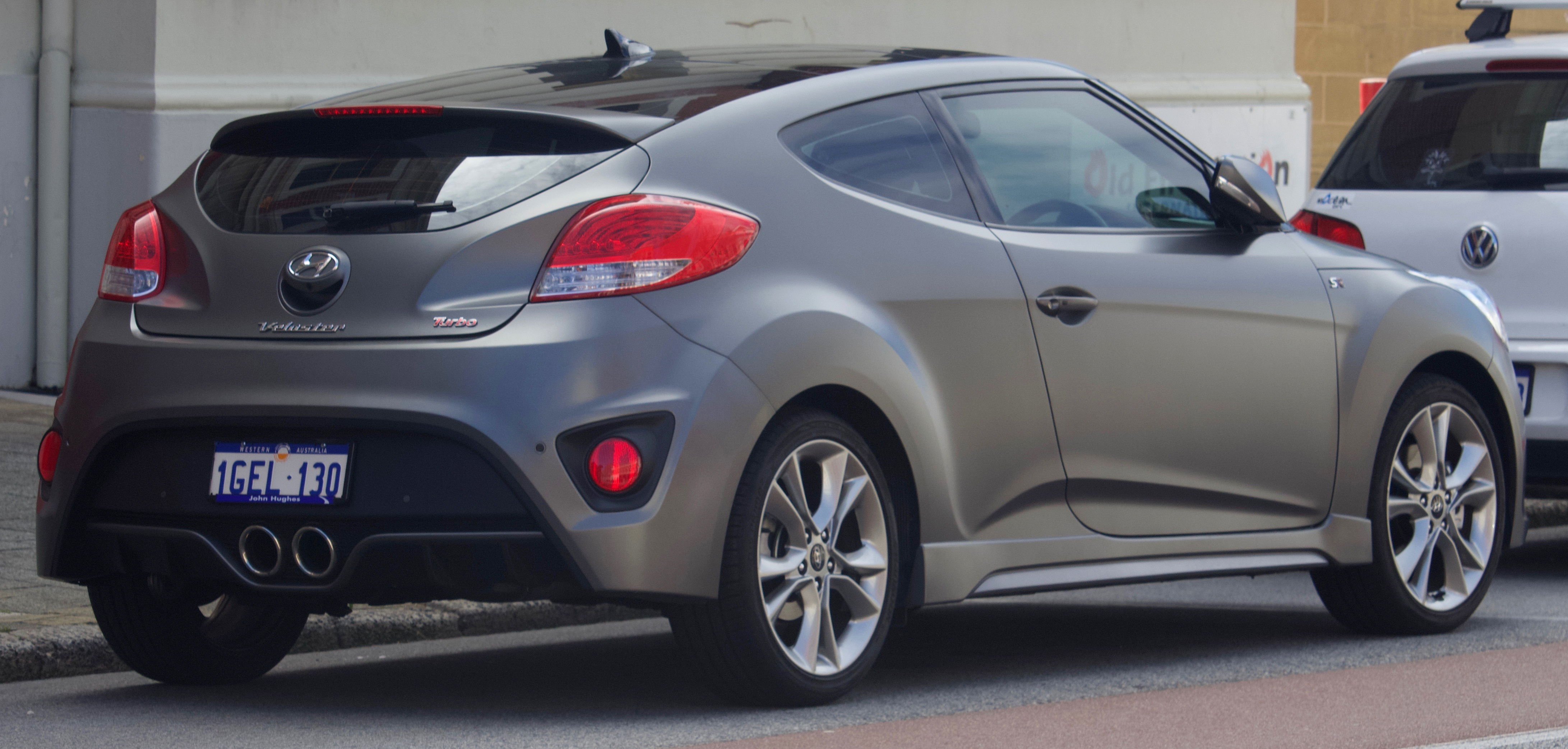 2017 Hyundai Veloster (FS5 Series II) SR Turbo hatchback. Photographed in Fremantle, Western Australia, Australia.